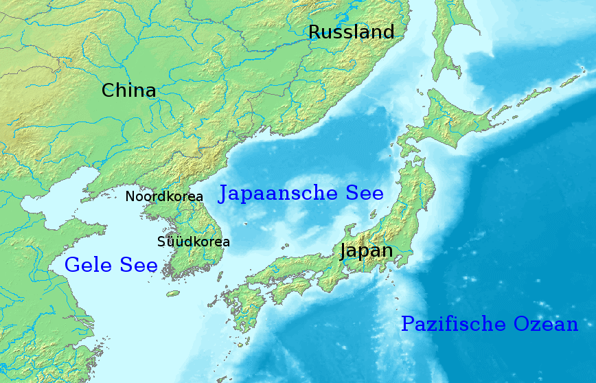 Map of the Sea of Japan in Low German